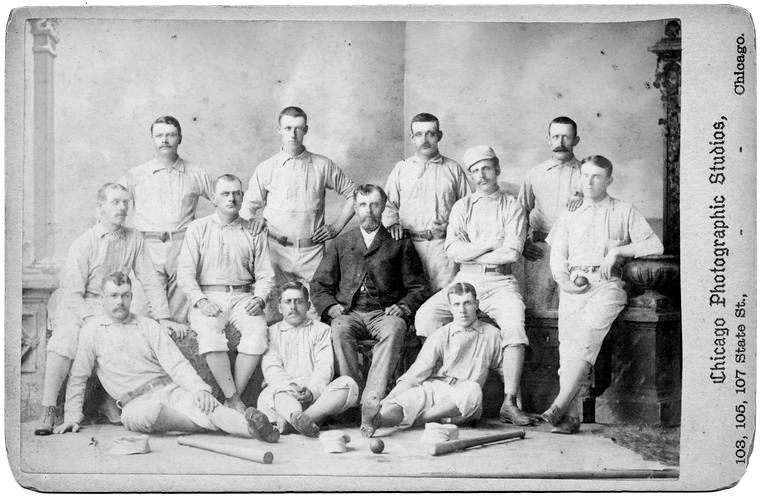 Providence Baseball Club, 1879, York, Riley, Hines, Start, Denny, Nara, H. Wright, Radbourne, Gilligan, G. Wright, Farrell, Ward